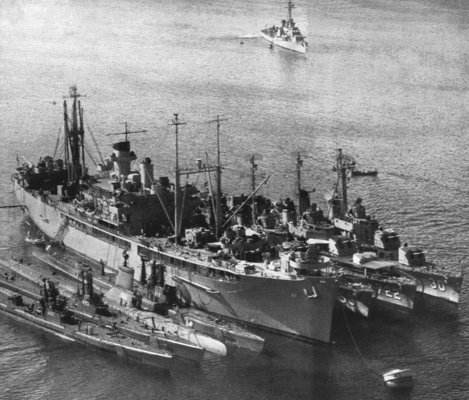 The U.S. Navy destroyer tender USS Yellowstone (AD-27) at Augusta Bay, Sicily, Italy, May-October 1950. Ships alongside are: USS Sea Robin (SS-407), (front to back, starboard side); USS Torsk (SS-423); USS Sea Leopard (SS-483); USS Burrfish (SSR-312); USS John R. Pierce (DD-753), (port side); USS Barton (DD-722); USS Shea (DM-30). In the background is USS Harry F. Bauer (DM-26).